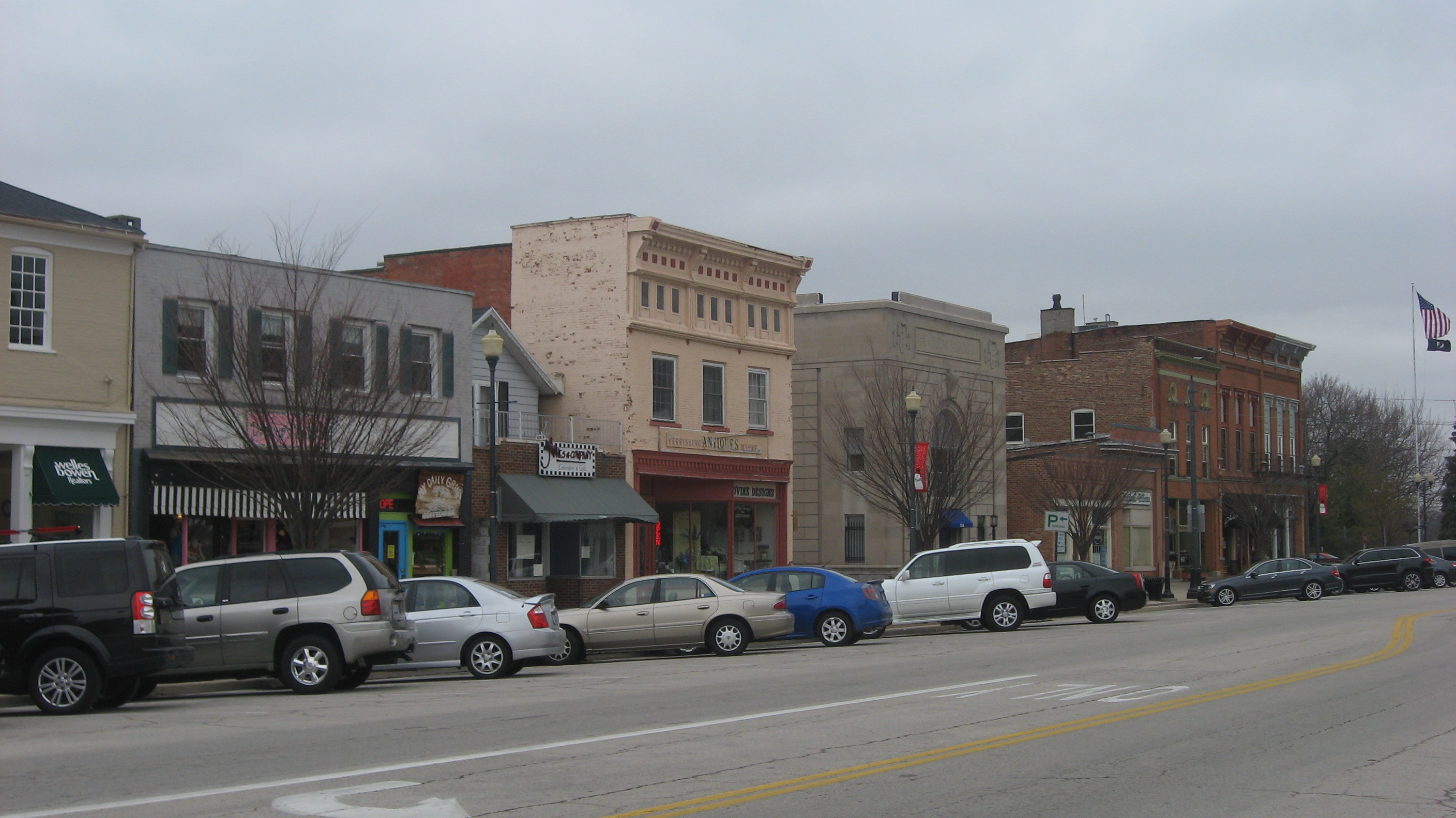 Western side of Louisiana Avenue (U.S. Route 20/State Route 199) in downtown Perrysburg, Ohio, United States. This block is part of the Perrysburg Historic District, a historic district that is listed on the National Register of Historic Places.